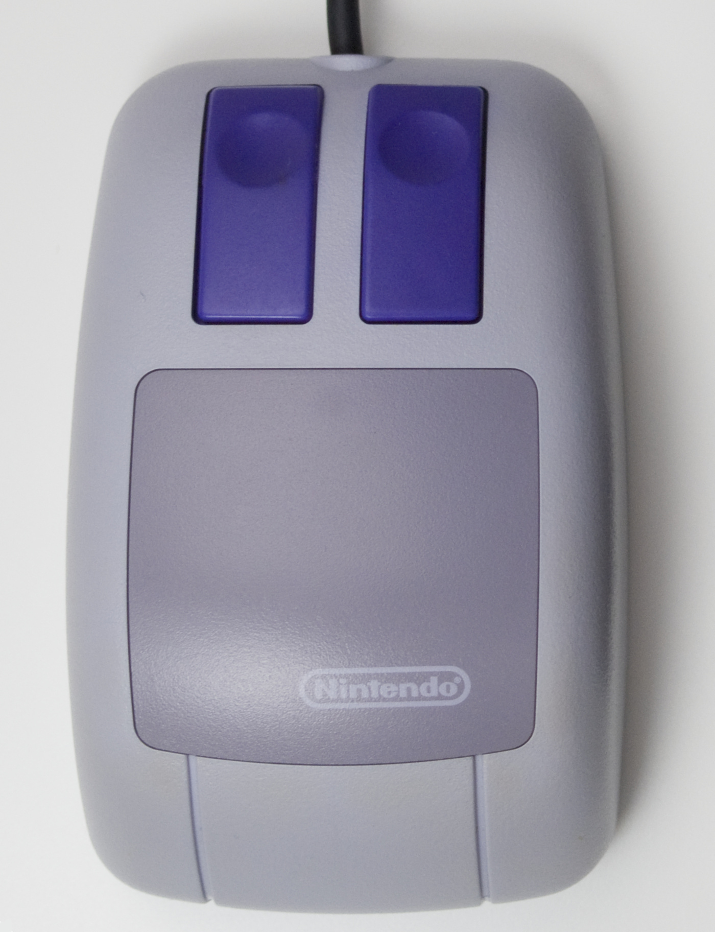 Super NES Mouse, peripheral for the Super Nintendo Entertainment System